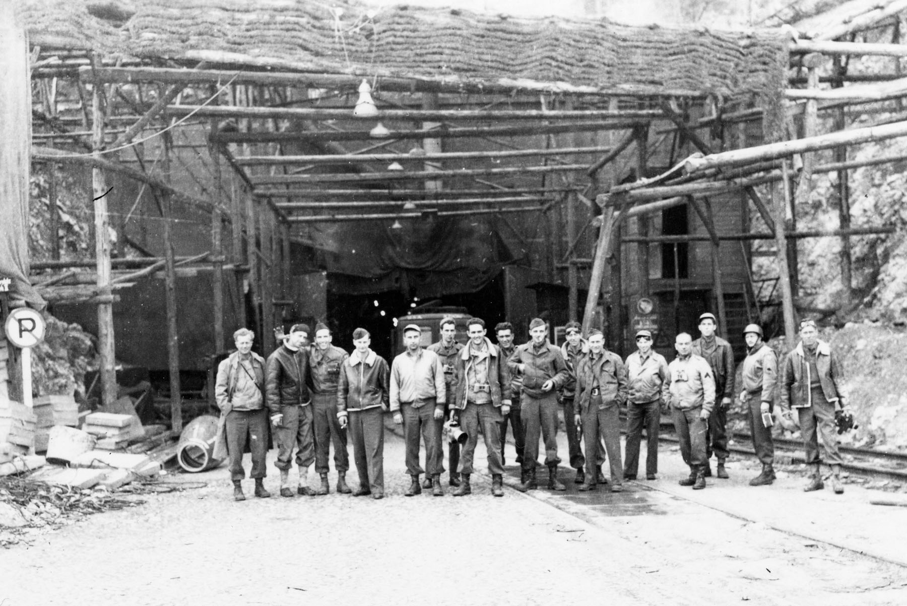 US Airman inspecting V-1 factory. The Mittelwerk occupied large tunnels underneath a mountain near Nordhausen in the Harz Mountains in central Germany.